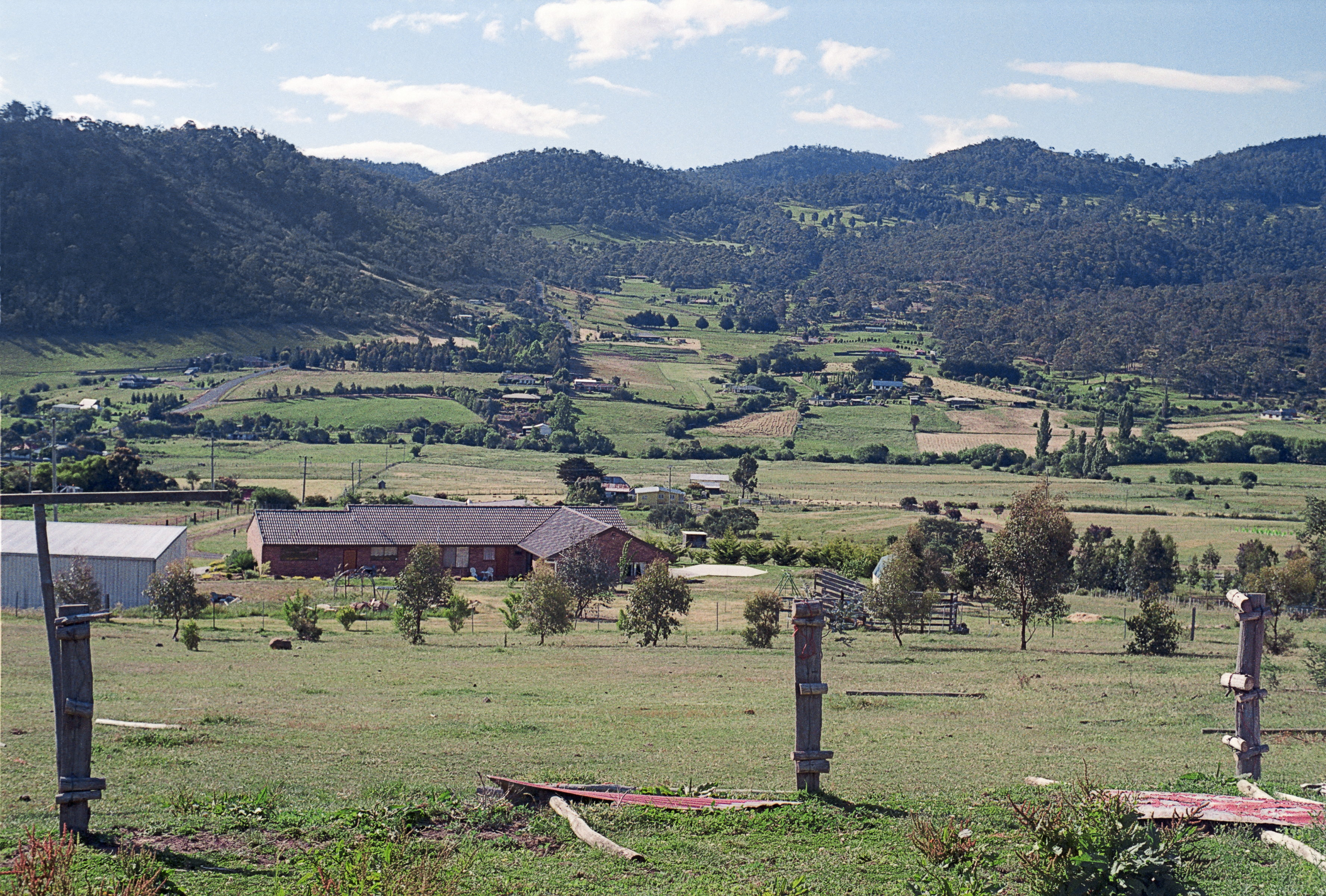 A view of the Magra area from near Saddle Road. The photo shows some of the farms and dwellings of the area as well as the hills to the north.